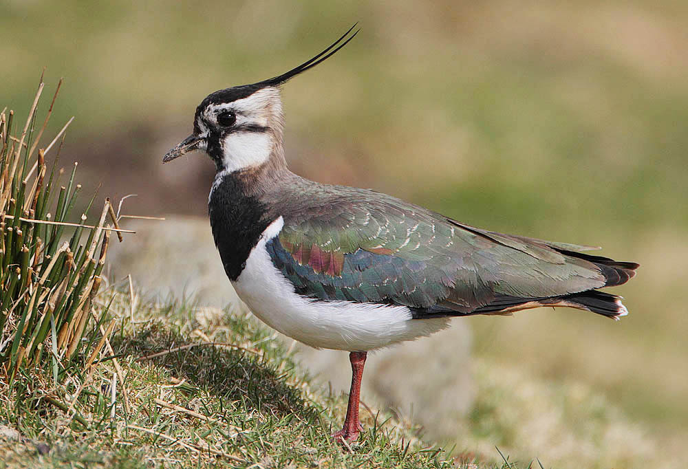 An adult female in breeding plumage. Image taken in Glen Quaich, Breadalbane, Scotland.